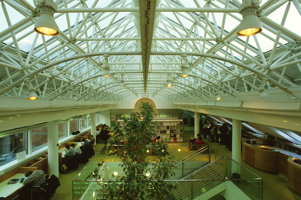 Aosta public library